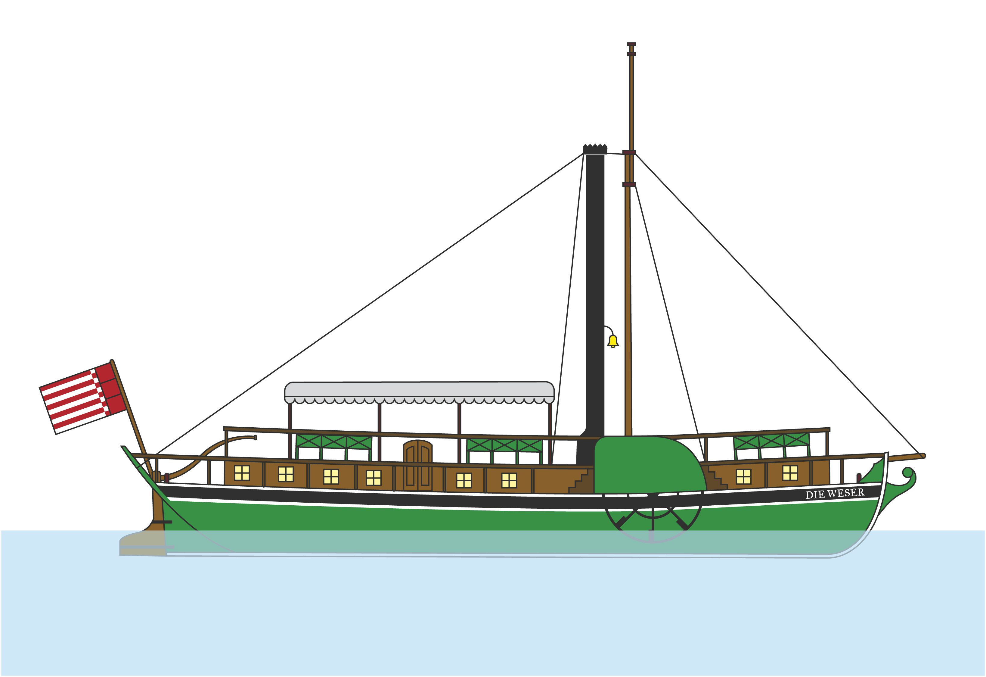 View of steam vessel “Die Weser” from 1817 built at Johann Lange ship yard in Grohn near Bremen-Vegesack, Germany. This picture has been drawn based on contempary drawings and different descriptions of the ship.